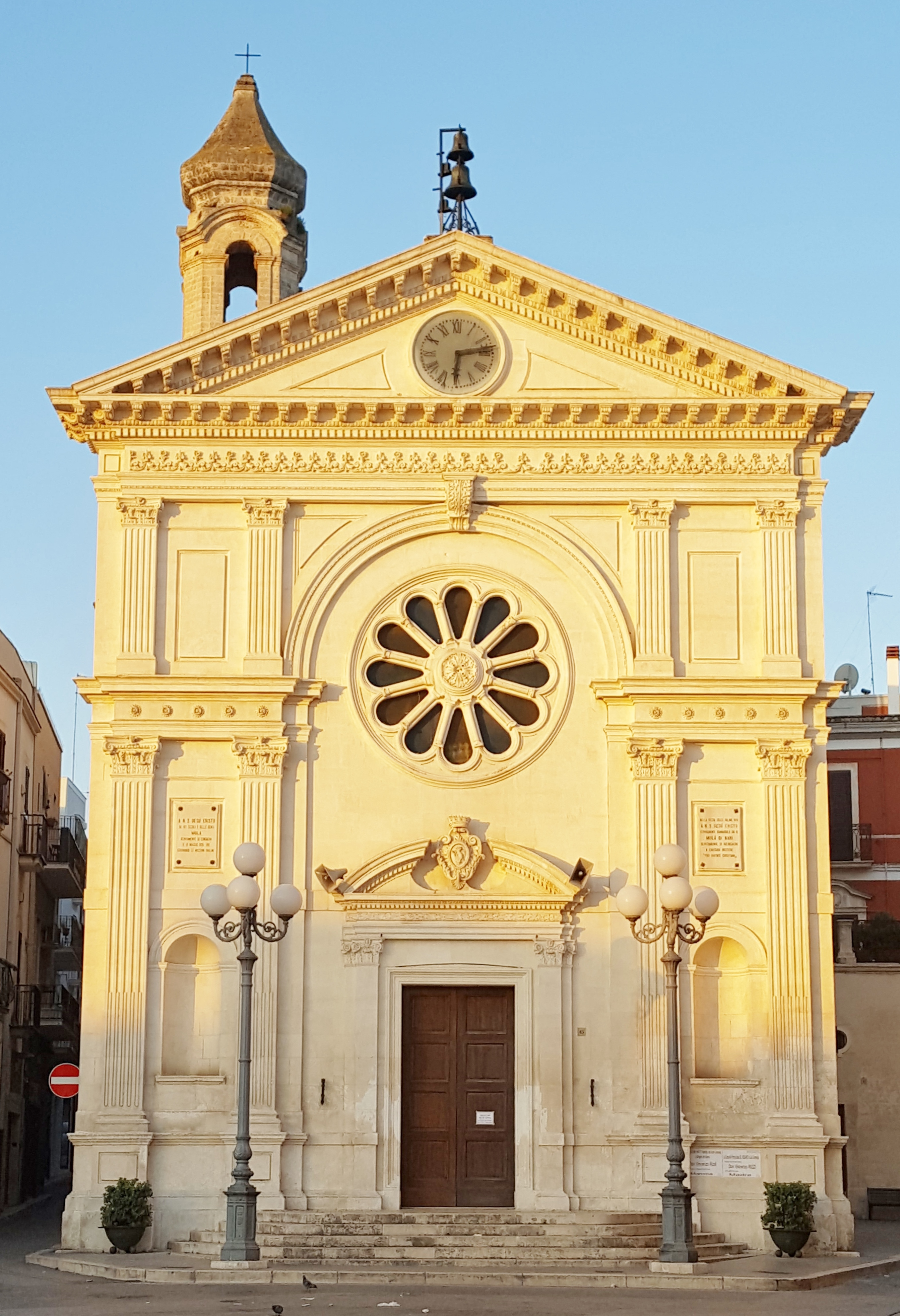 Mola di Bari (Italy), facade of the St. Mary Magdalene's church